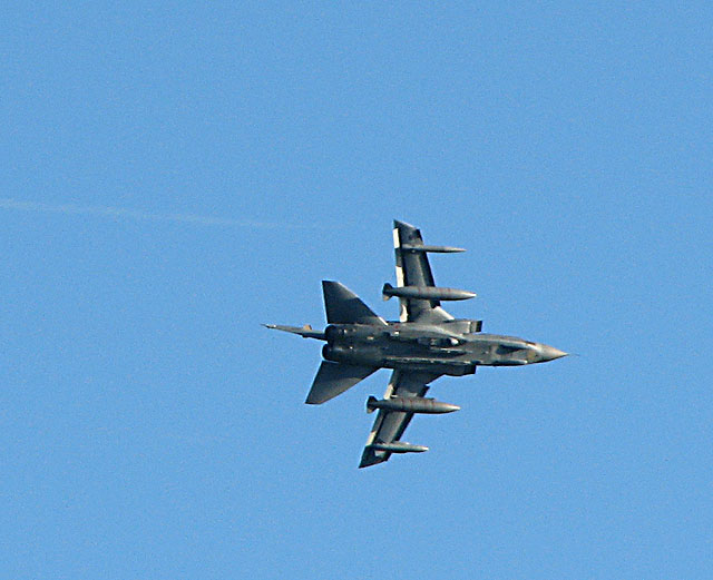 Military aircraft above field south of Besenel Farm